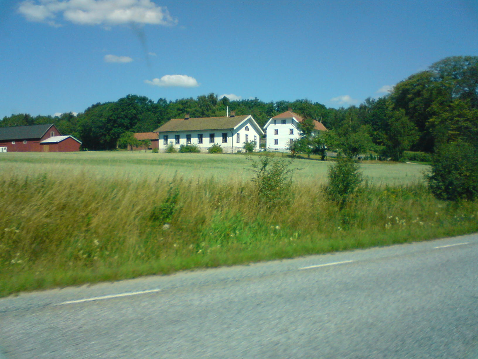 See more information by the picture Image:Smedseröd.JPG.